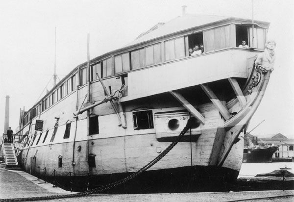 Reproduction ID: P07466 Maker: Unknown Date: circa 1880 '